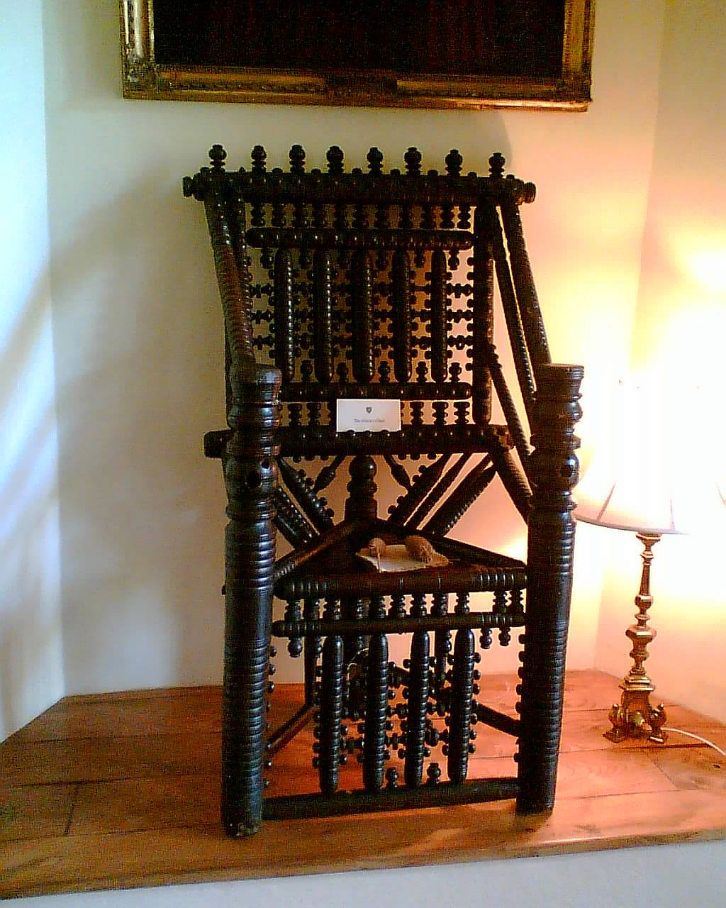 Original turned chair, now in the Bishop's Palace, Wells.